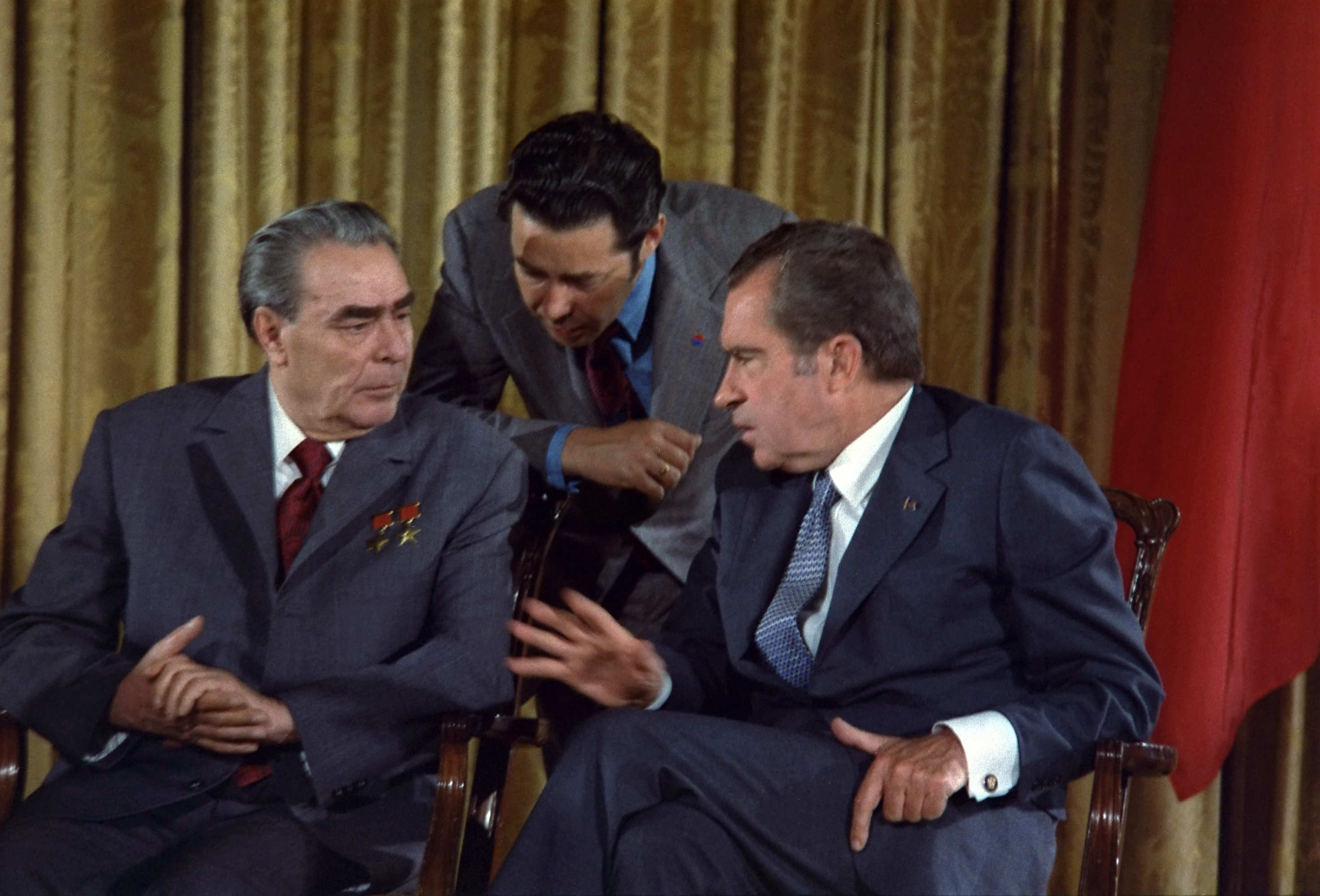 Richard Nixon (right) meets Leonid Brezhnev (left) June 19, 1973 during the Soviet Leader's U.S. visit. The interpreter is Viktor Sukhodrev.